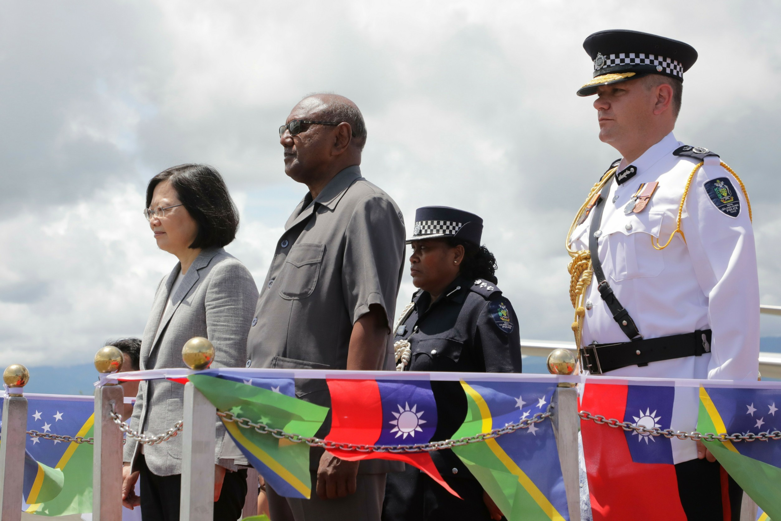 Picture from President Tsai Ing-wen's December 2017 state visit to Solomon Islands, lasting from December the first to December the third. On the morning of October 28, President Tsai Ing-wen departed on her trip to visit three diplomatic allies in the Pacific—the Marshall Islands, Tuvalu, and the Solomon Islands. Her departure marked the beginning of an eight-day, seven-night trip with the theme "Sustainable Austronesia, Working Together for a Better Future—2017 State Visits to Pacific Allies." Source (English): President Tsai issues remarks before visiting three Pacific allies. Source (Chinese): 新聞與活動